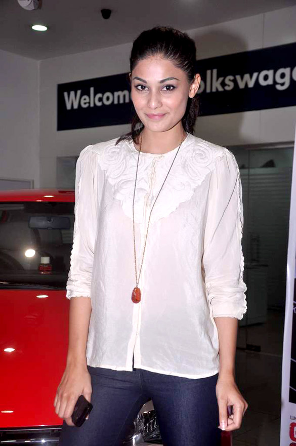 Puja Gupta Promotions of 'Go Goa Gone' in association with Volkswagen